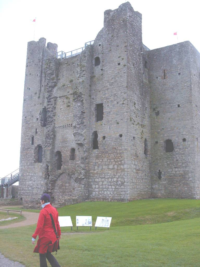 Trim-Castle (Meath, Irland)